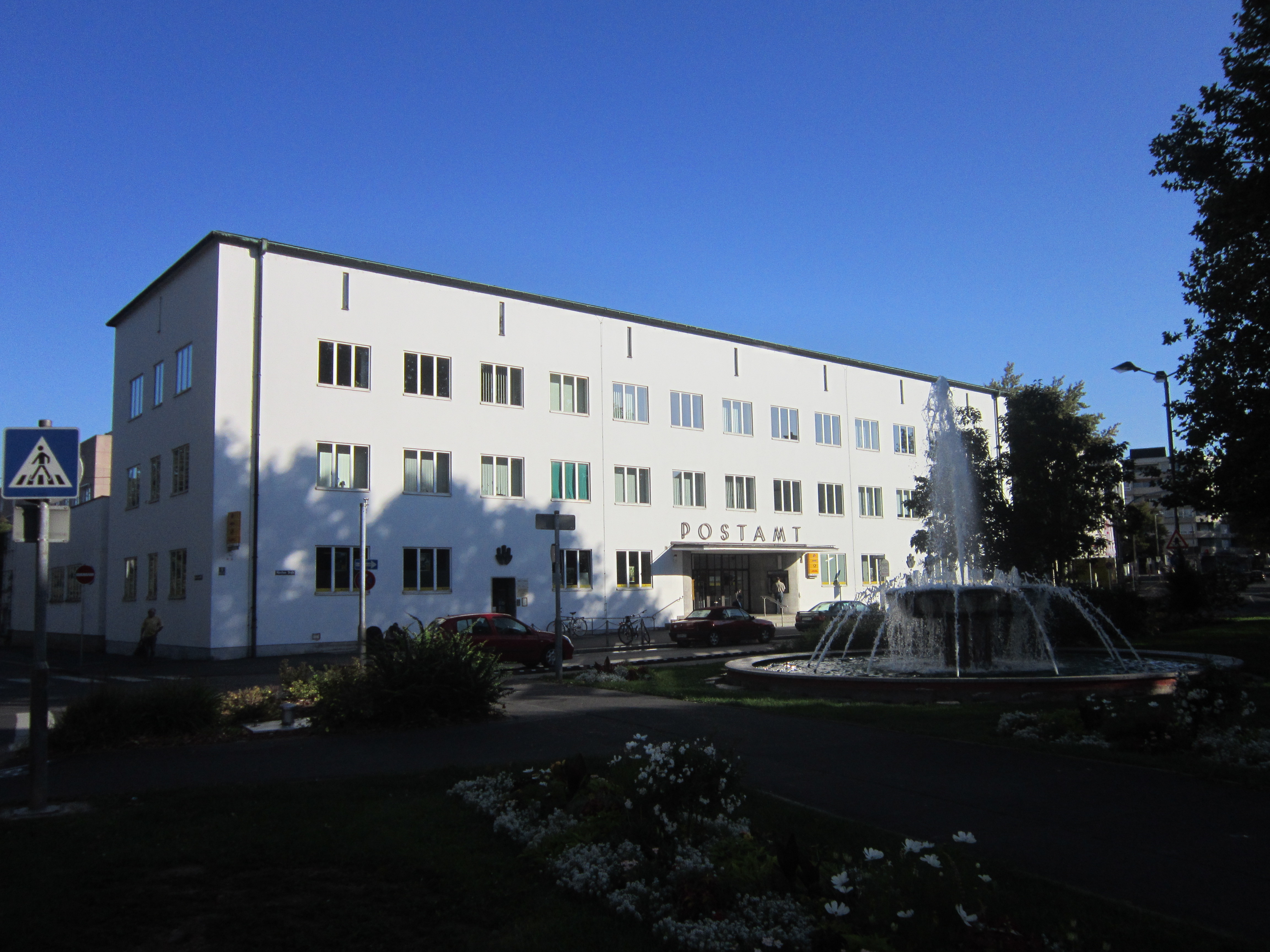 Post office in the German spa town of Bad Kissingen (Lower Franconia, Bavaria).